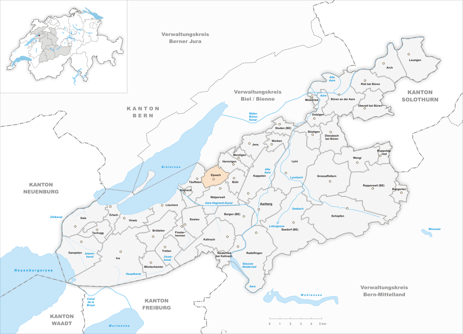 Municipality Epsach